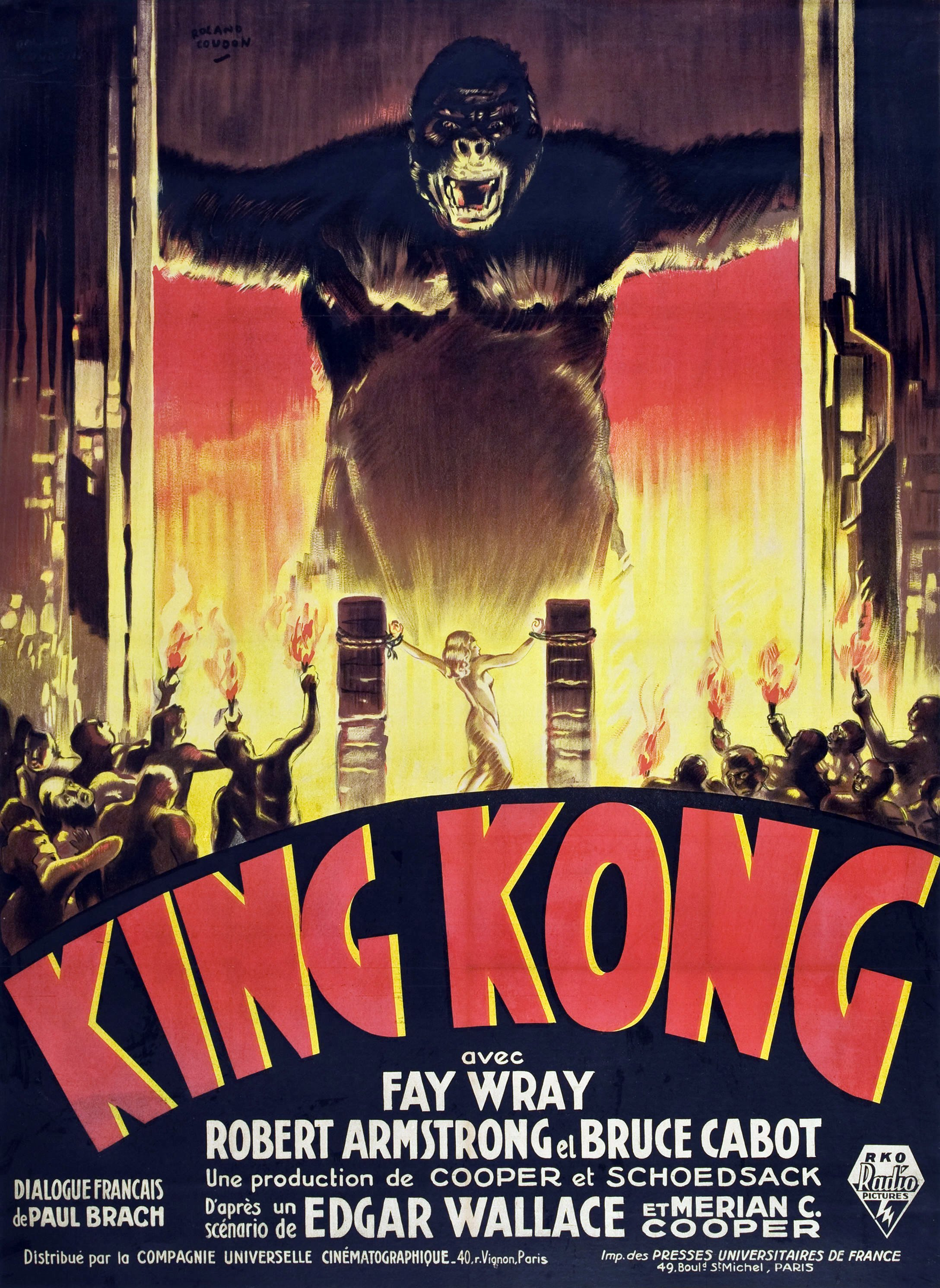 King Kong 1933 French movie poster